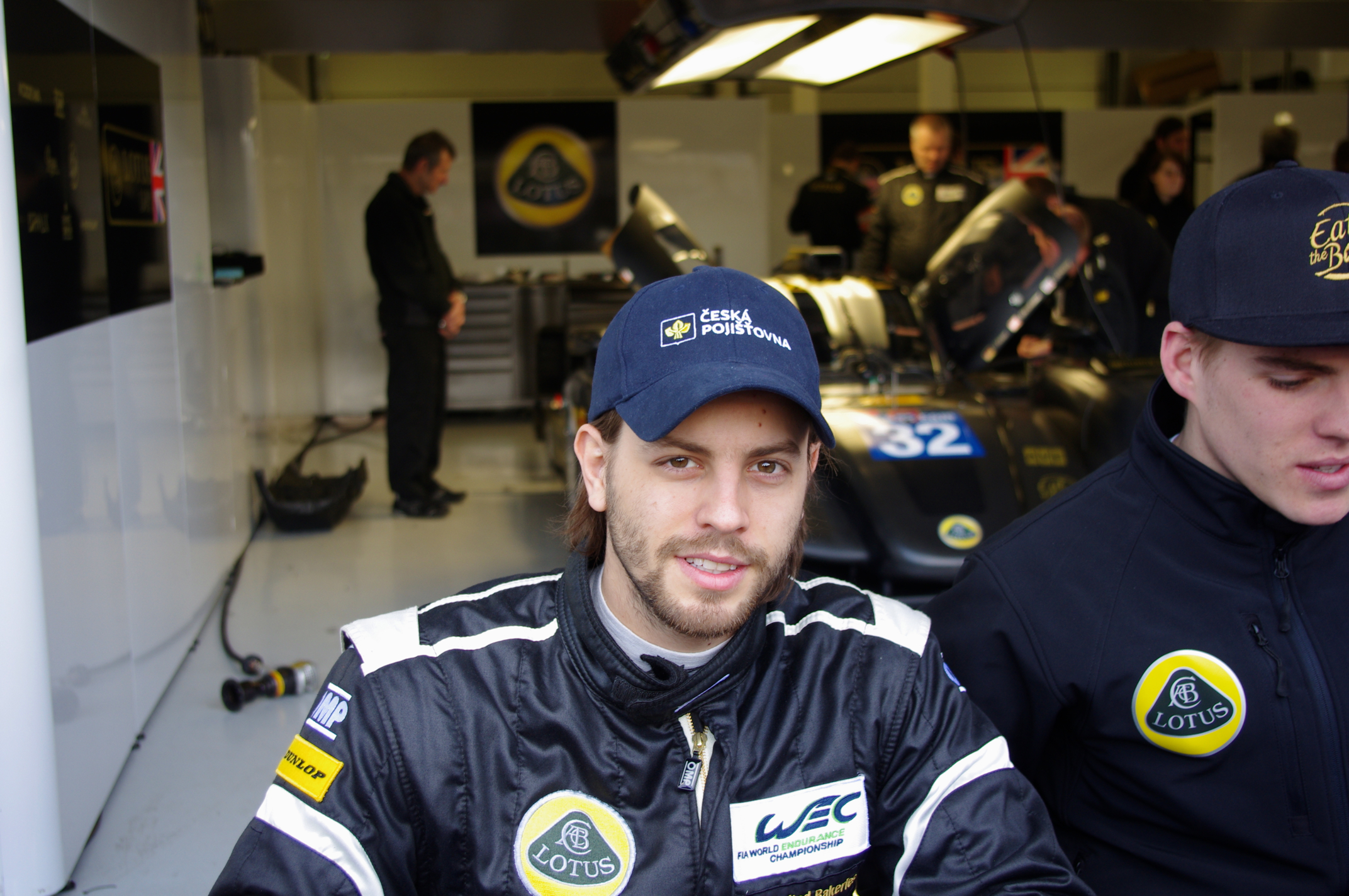 Silverstone 6 Hours 2013 FIA World Endurance Championship (WEC)